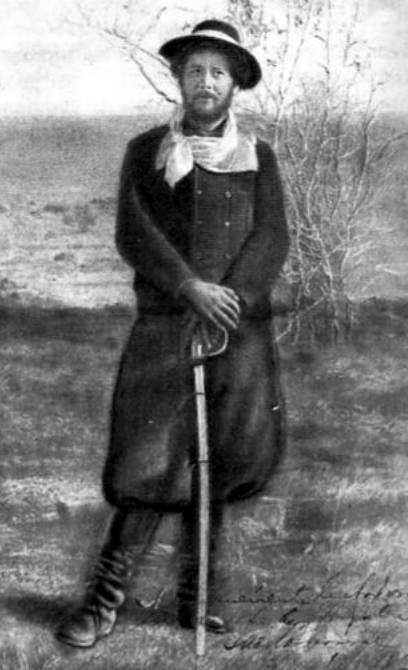 Portrait of whole body which sees Luis Alberto Herrera (1873 - 1959), Uruguayan political, wearing their own clothes of the National Party Revolutionary Army, which belonged to camp in the context of the Revolution of 1897, when the portrait was done.